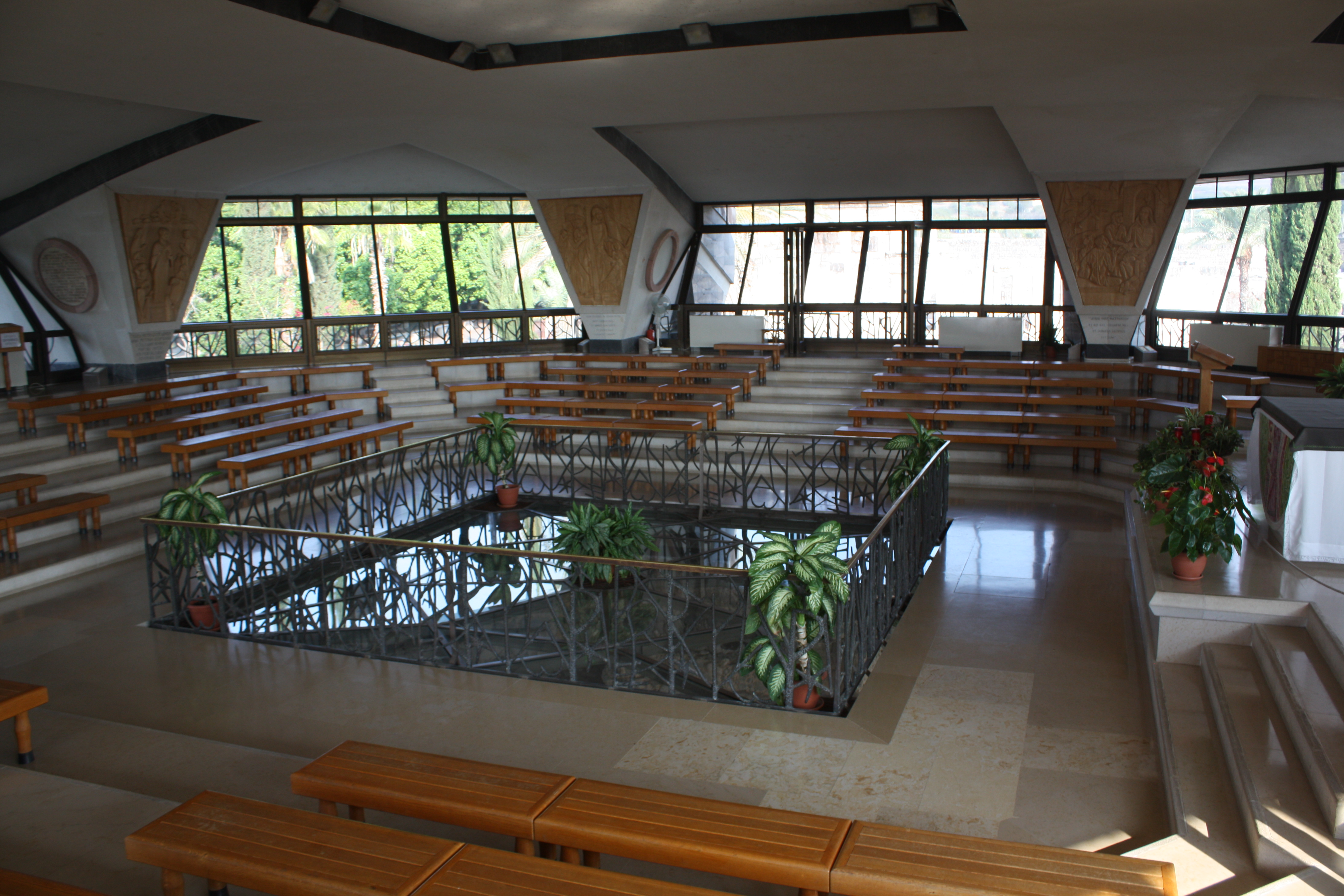 Israel - Sea of Galilee - 46 Israel